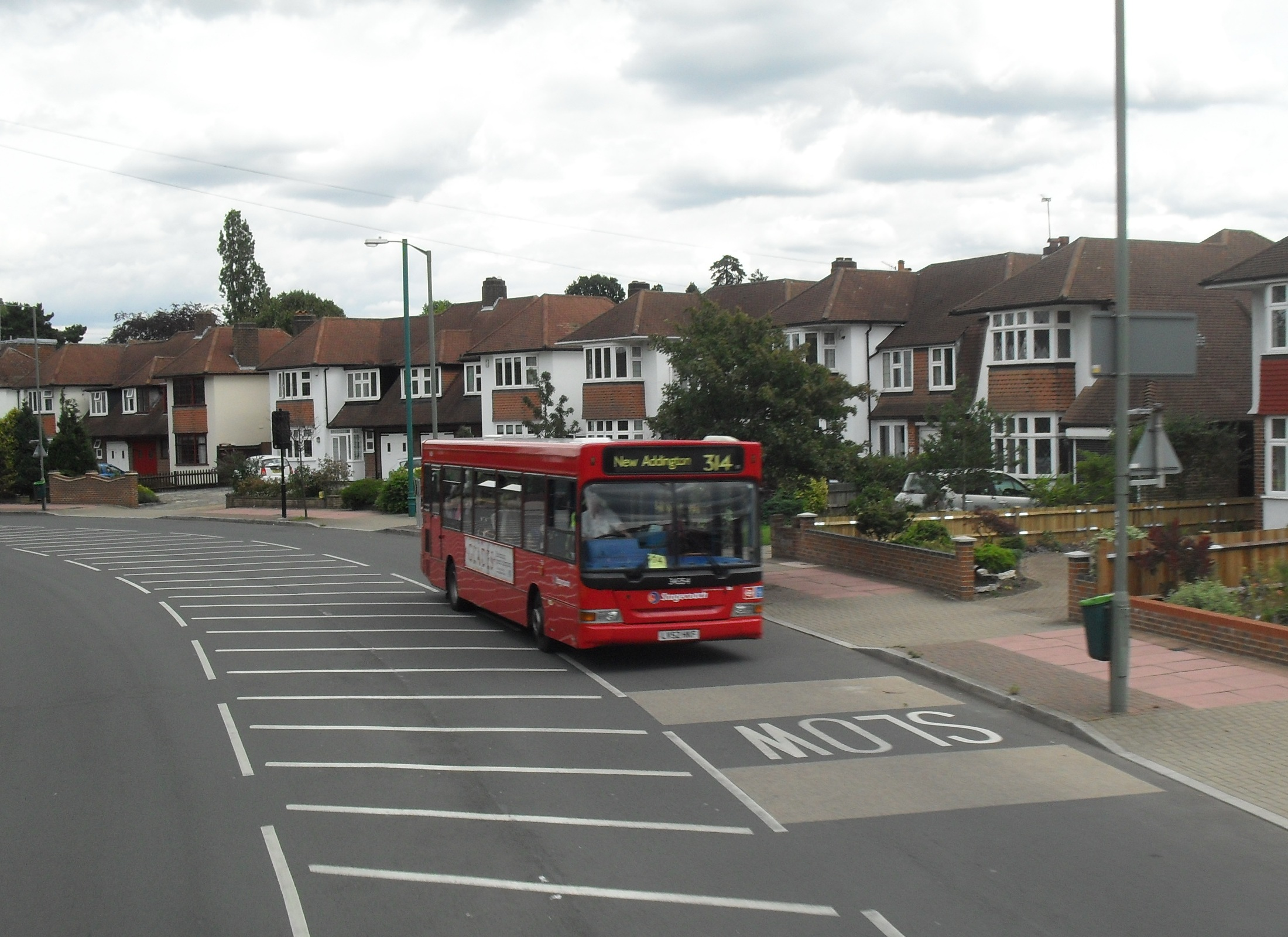 Photographed on 23rd July 2011.